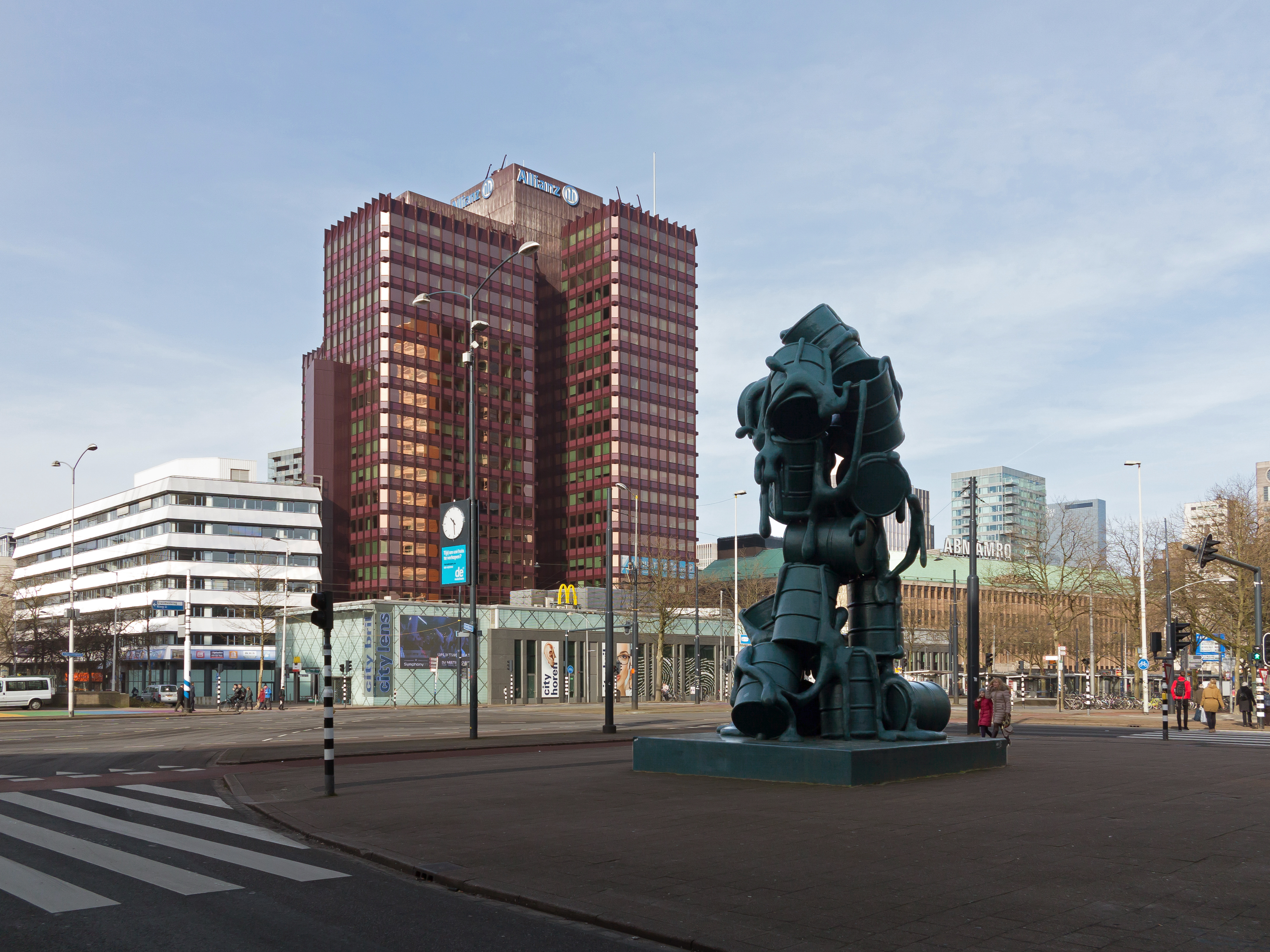 Rotterdam, sculptur (de Cascade) at het Churchillplein